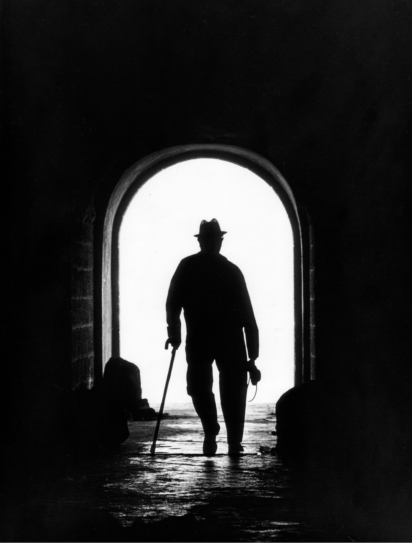 Old black and white photo of an man walking in a tunnel with a camera. Taken at São Martinho do Porto, West coast of Portugal. It is uncertain whether the man is approaching the camera or walking away from it.